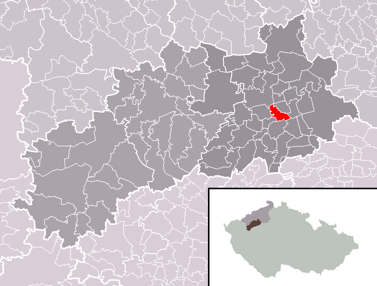 Location of Chlumčany municipality within Louny District and administrative area of Louny as a Municipality with Extended Competence.